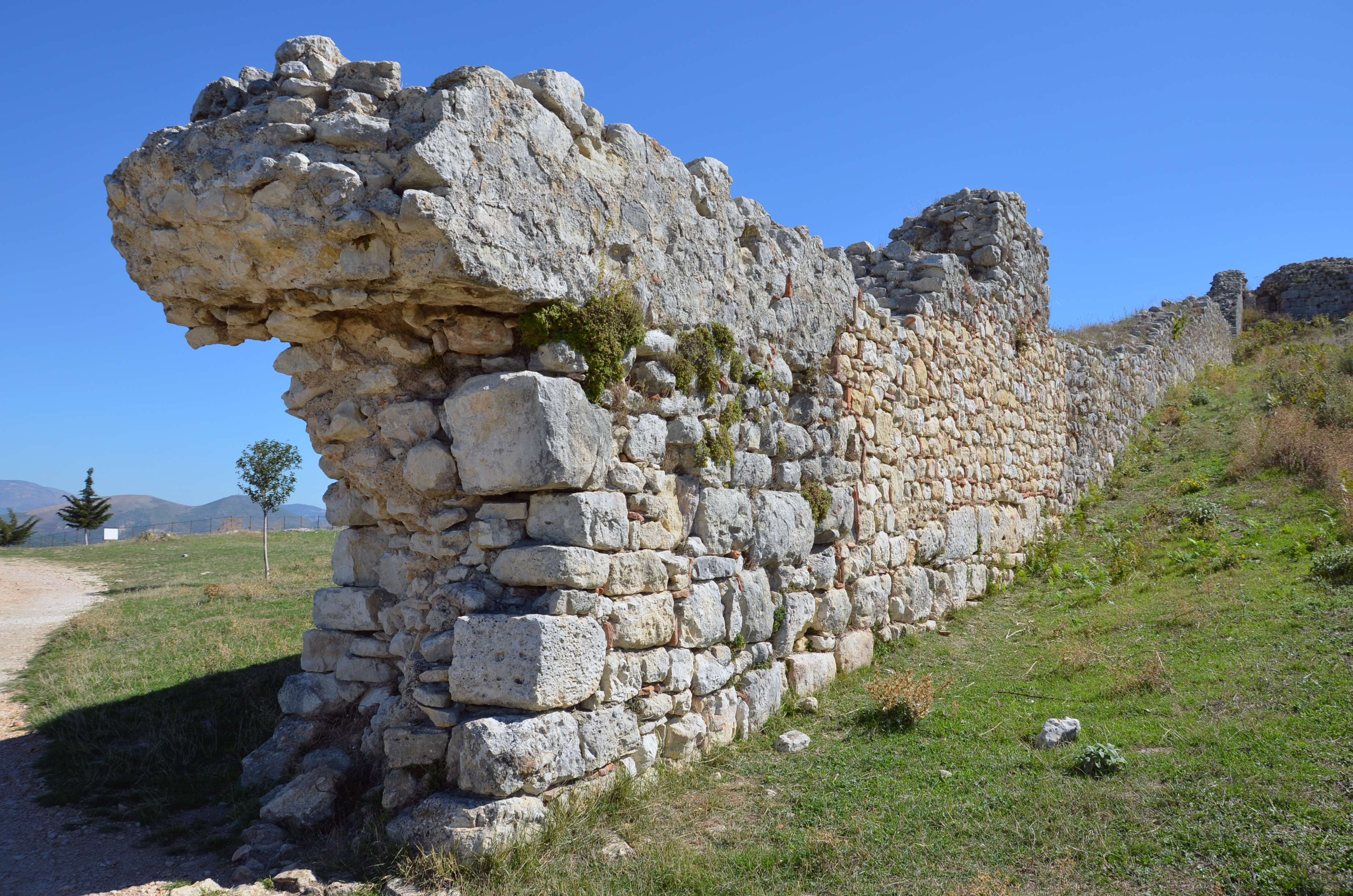 Defensive walls in Byllis, Albania